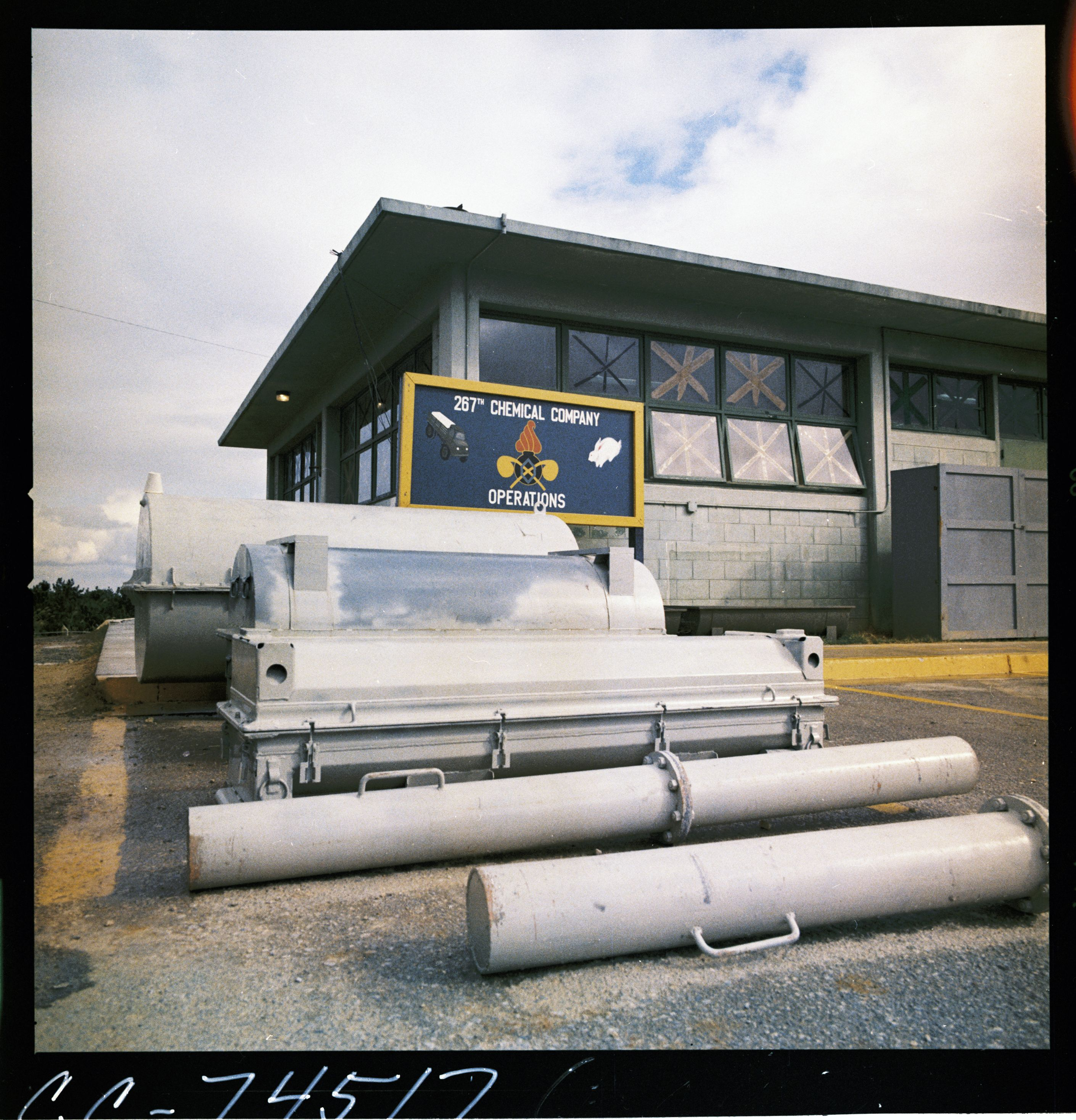 267th Chemical Company Operations, Okinawa, January 1971. Various encasement devices for leaking chemical munitions are displayed.